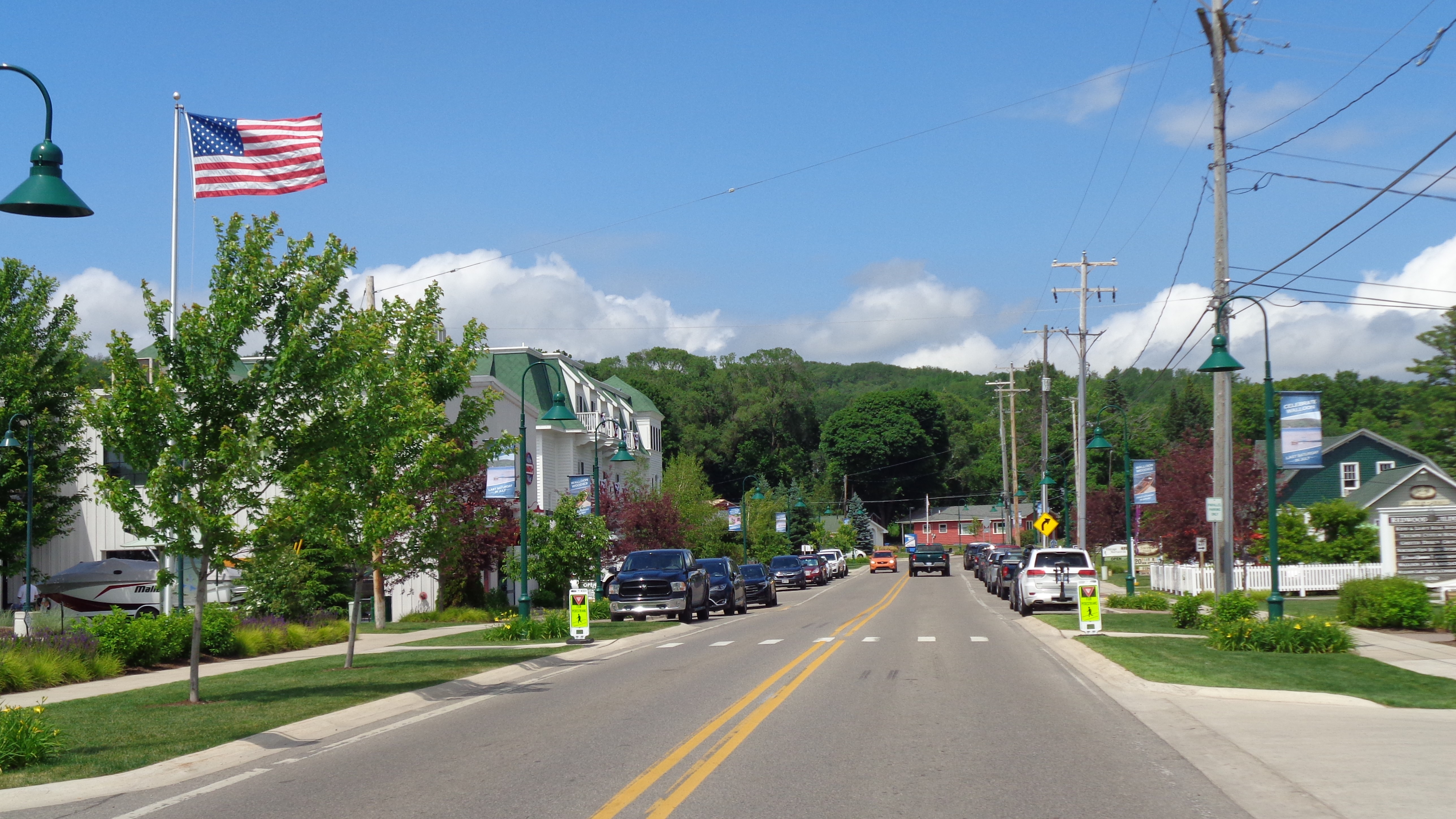 Depicted place: Walloon Lake